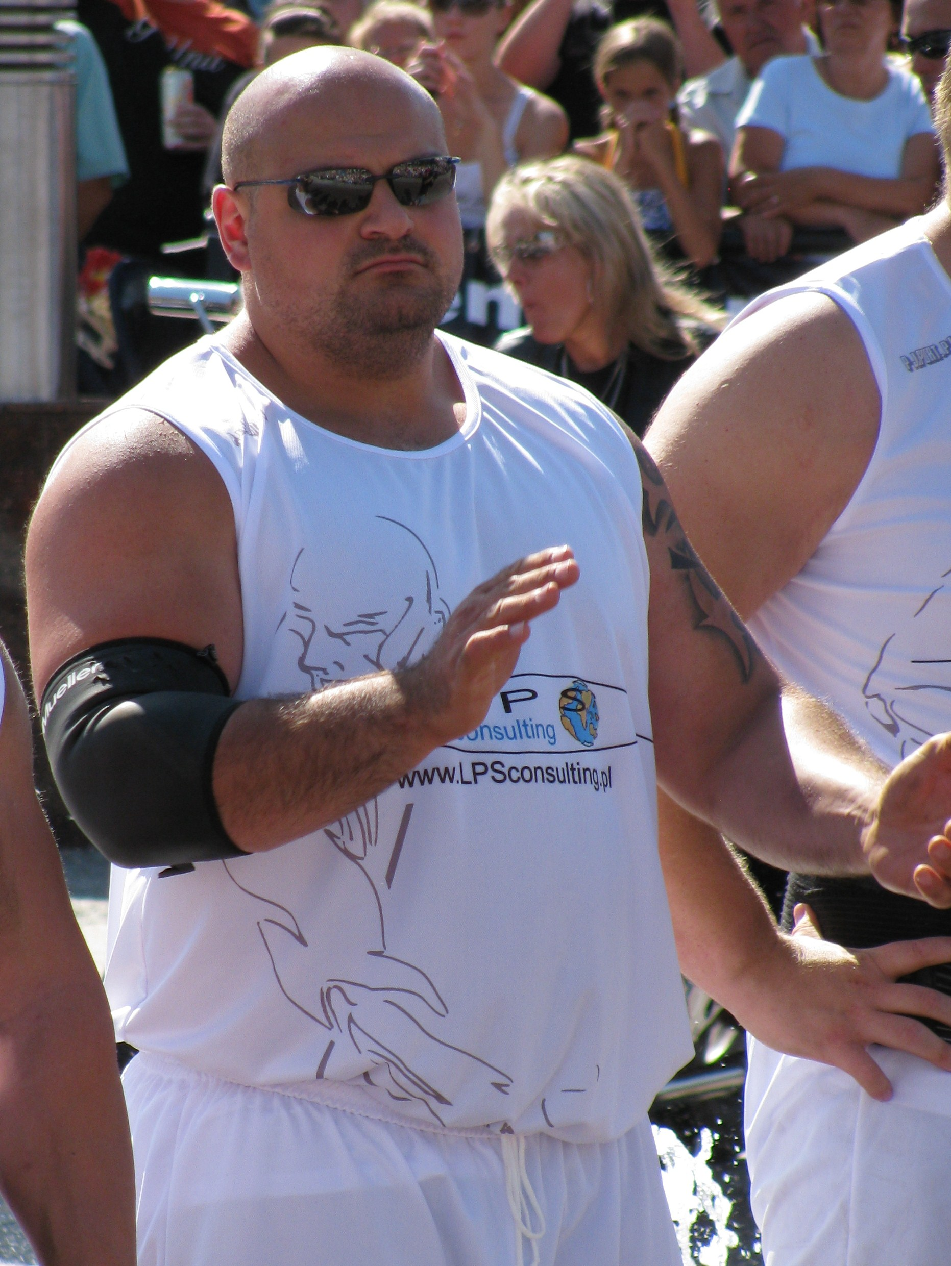 Laurence Shahlaei - a strength athlete from England